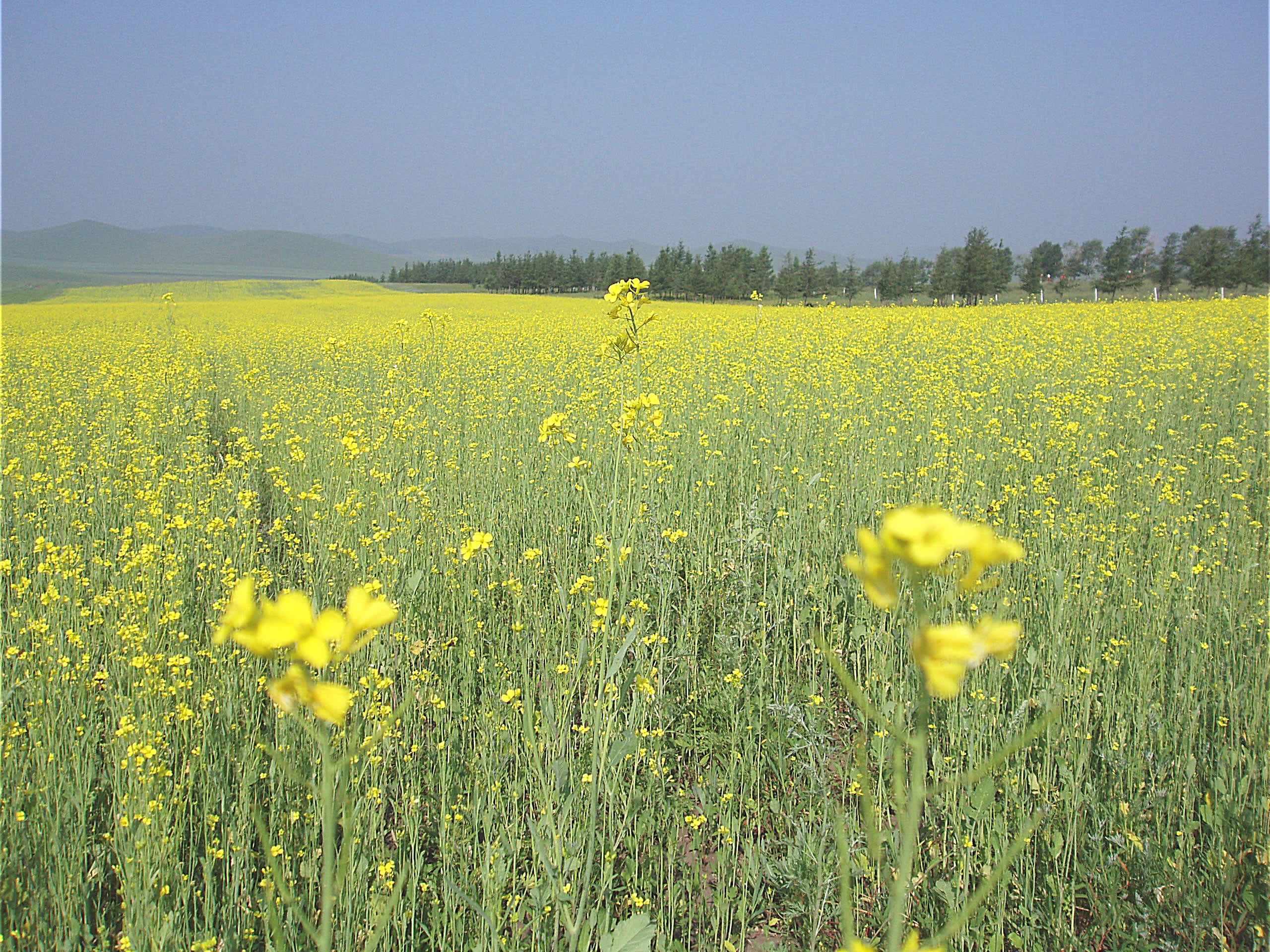 Saihanba National Park in Inner Moglian plateau grassland border, north Chengde, Hebei Province, China